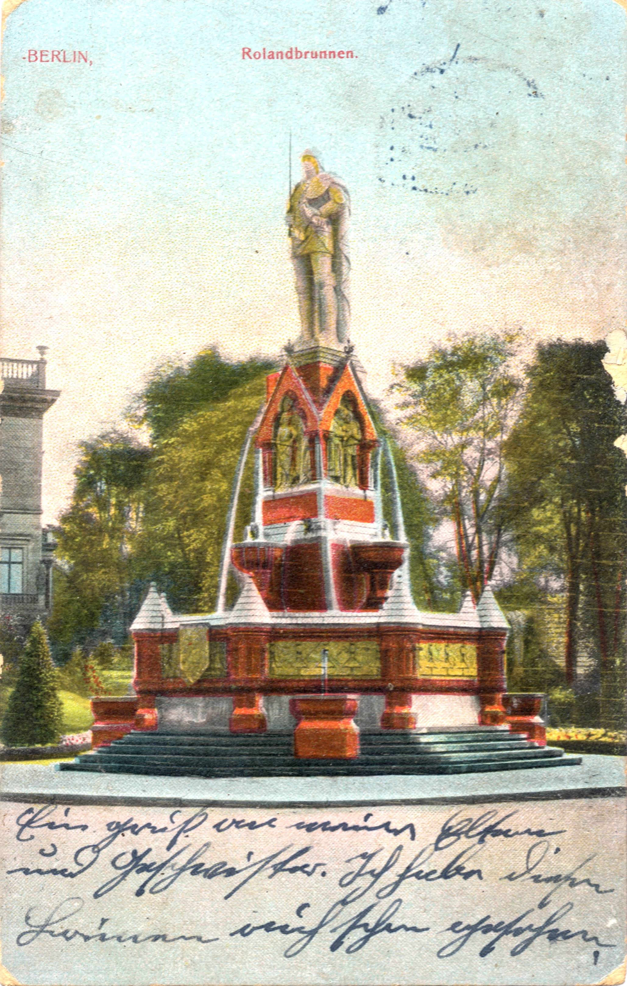 Berlin - Rolandbrunnen around 1903